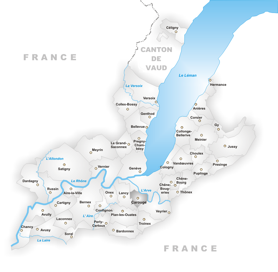 Copy of Image Carte_Commune_Carouge.png, with a correct naming